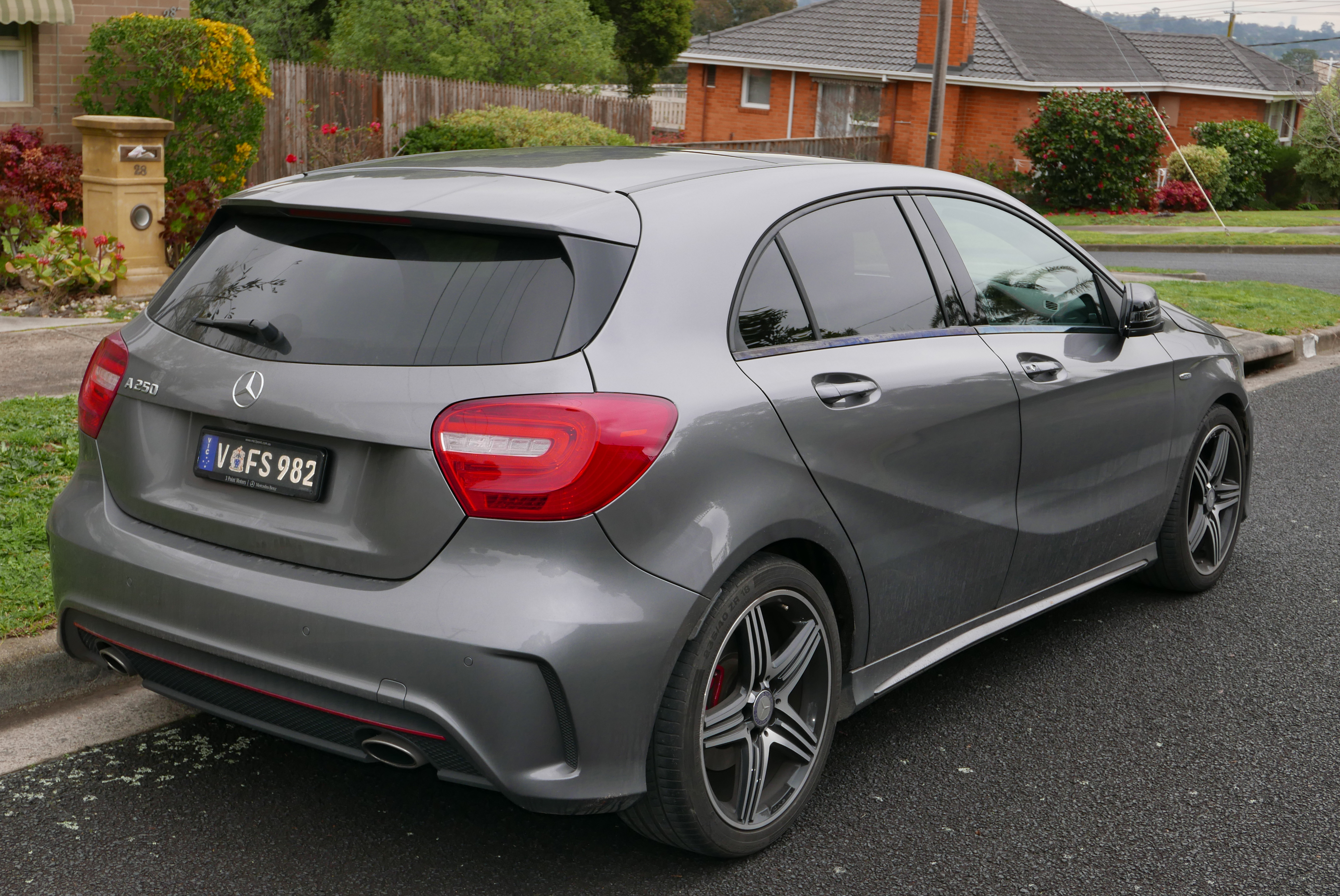 2014 Mercedes-Benz A 250 (W 176) Sport hatchback. Photographed in Doncaster, Victoria, Australia. Vehicle registration enquiry results Jurisdiction Victoria Registration VFS982 Chassis code WDD1760442V008822 Engine code 27092030341784 Compliance date 2014-03 Year of manufacture 2014